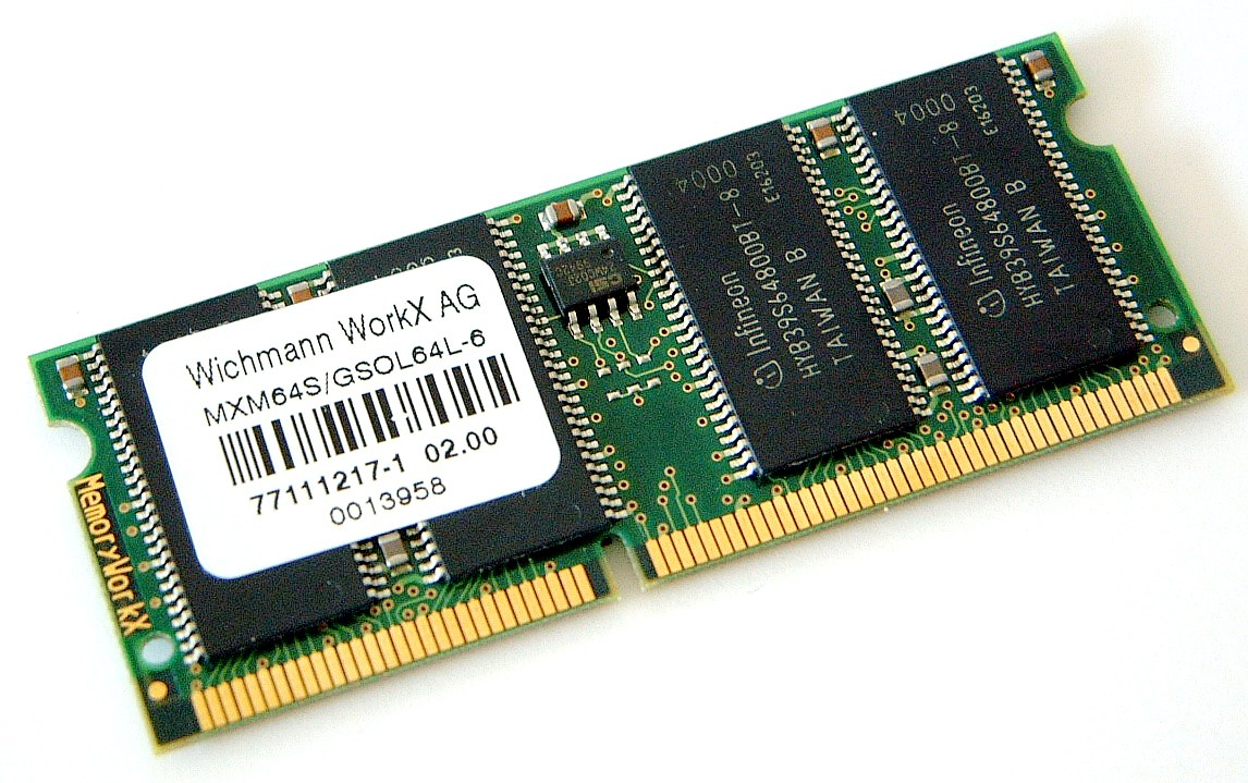 Small Outline Dual Inline Memory Module (SODIMM) 64 MByte Synchronous Dynamic Random Access Memory (SDRAM)